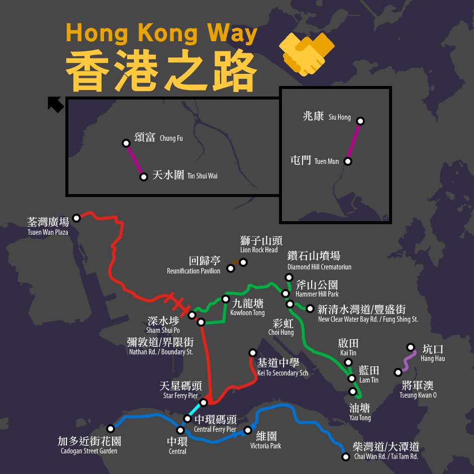 中文（香港）: 香港之路 This map of Hong Kong was created from OpenStreetMap project data, collected by the community. This map may be incomplete, and may contain errors. Don't rely solely on it for navigation.